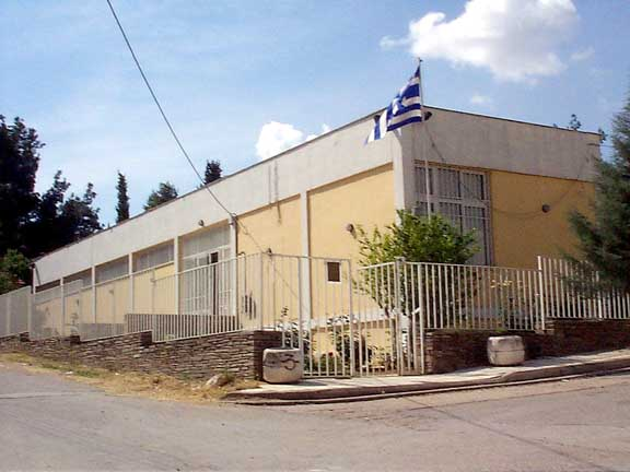 Outside view, image from the Archaeological Museum, Kilkis, Central Macedonia, Greece